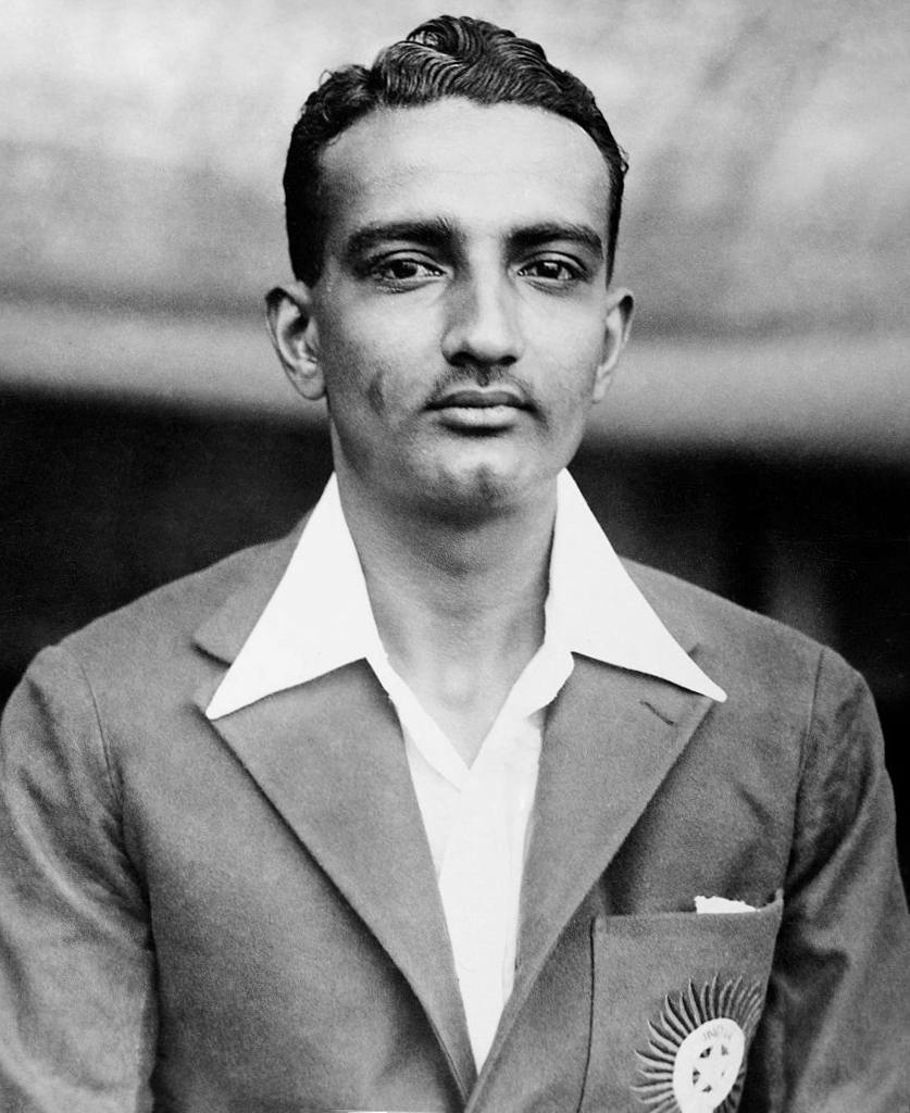 Vijay Merchant, a member of the All India cricket team for their tour of England in 1936.